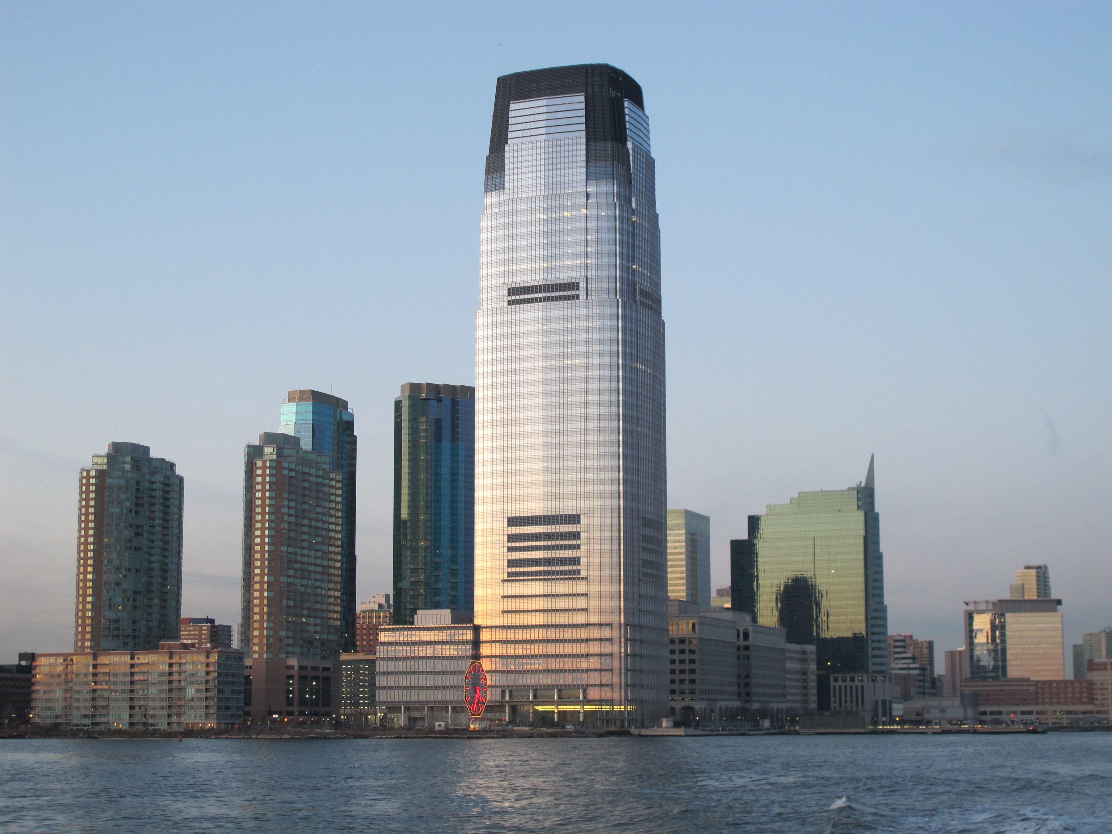 Manhattan, New York City